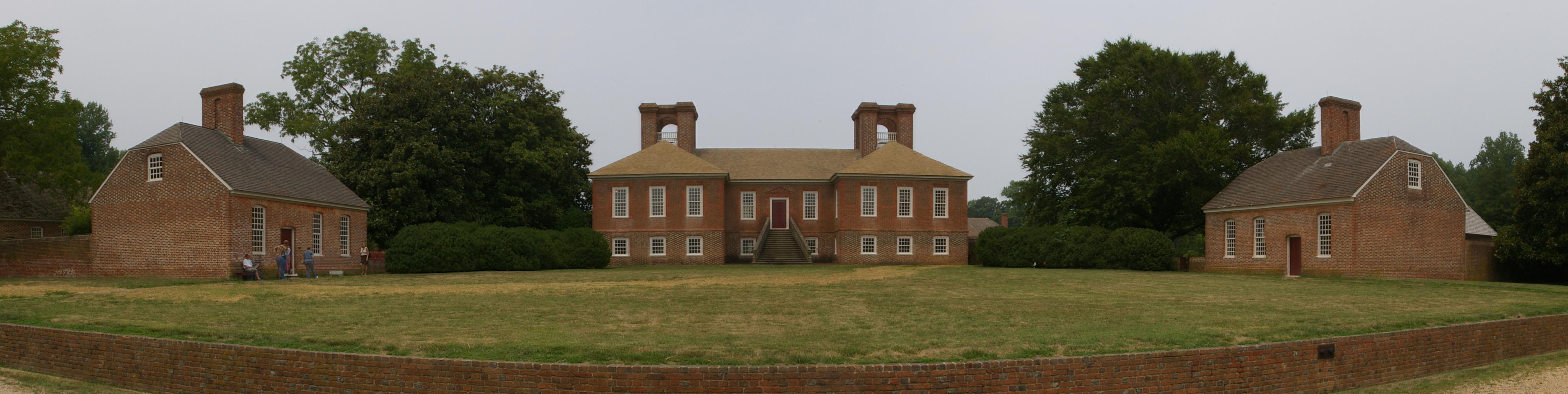 Panoramic image made from five photos taken Aug 2007 at Stratford Hall Plantation and merged together with AutoStitch.